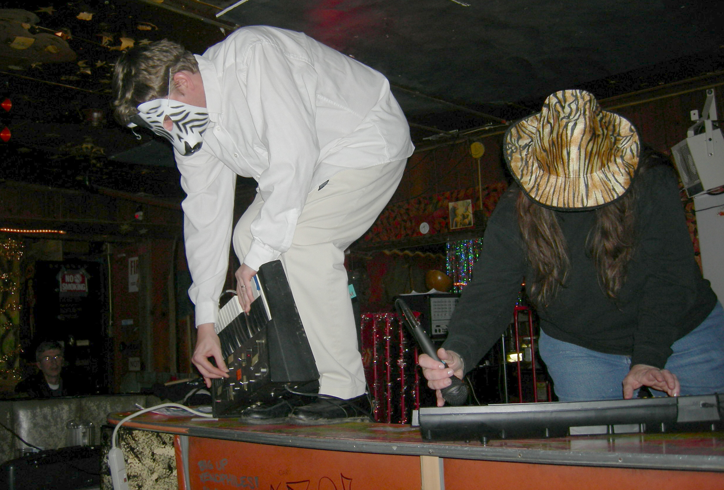 The Dead Air Fresheners performing at Bob's Java Jive, Tacoma, Washington. Image probably colormapped lighter than the raw photo.